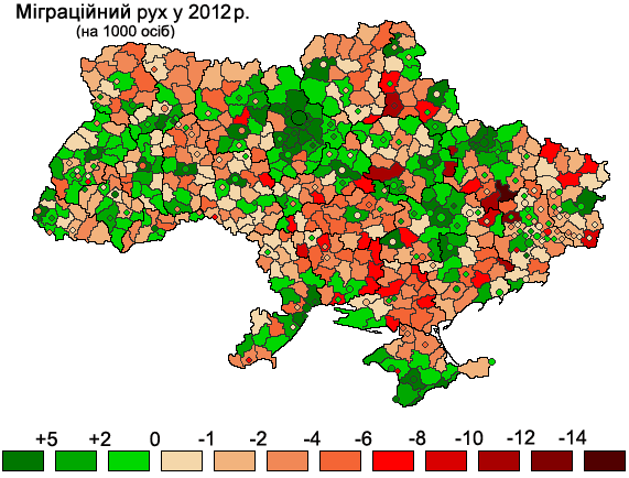 Migrational population growth rate in Ukraine, 2012